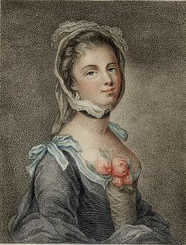 Source Title: Mrs. Garrick [graphic] / from the original picture by Cath. Reid ; engraved by W. P. Sherlock. CD_Title Mrs. Garrick [graphic] / from the original picture by Cath. Reid ; engraved by W. P. Sherlock. Source Created or Published: London [England] : Published by Anthy. Molteno, no. 29 Pall Mall, June 4th, 1802. Imprint London [England] : Published by Anthy. Molteno, no. 29 Pall Mall, June 4th, 1802. Source Call Number: ART File G241.5 no.1 copy 1 Digital Image File Name: 6353 ROOTFILE Digital Image Type: FSL collection Hamnet Bib ID: 243511 Bibrecord001 Hamnet Holdings ID: 308224